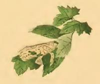 Stainton’s Natural History of the Tineina (1855–1873): Swammerdamia pyrella gnawed hawthorn leaf